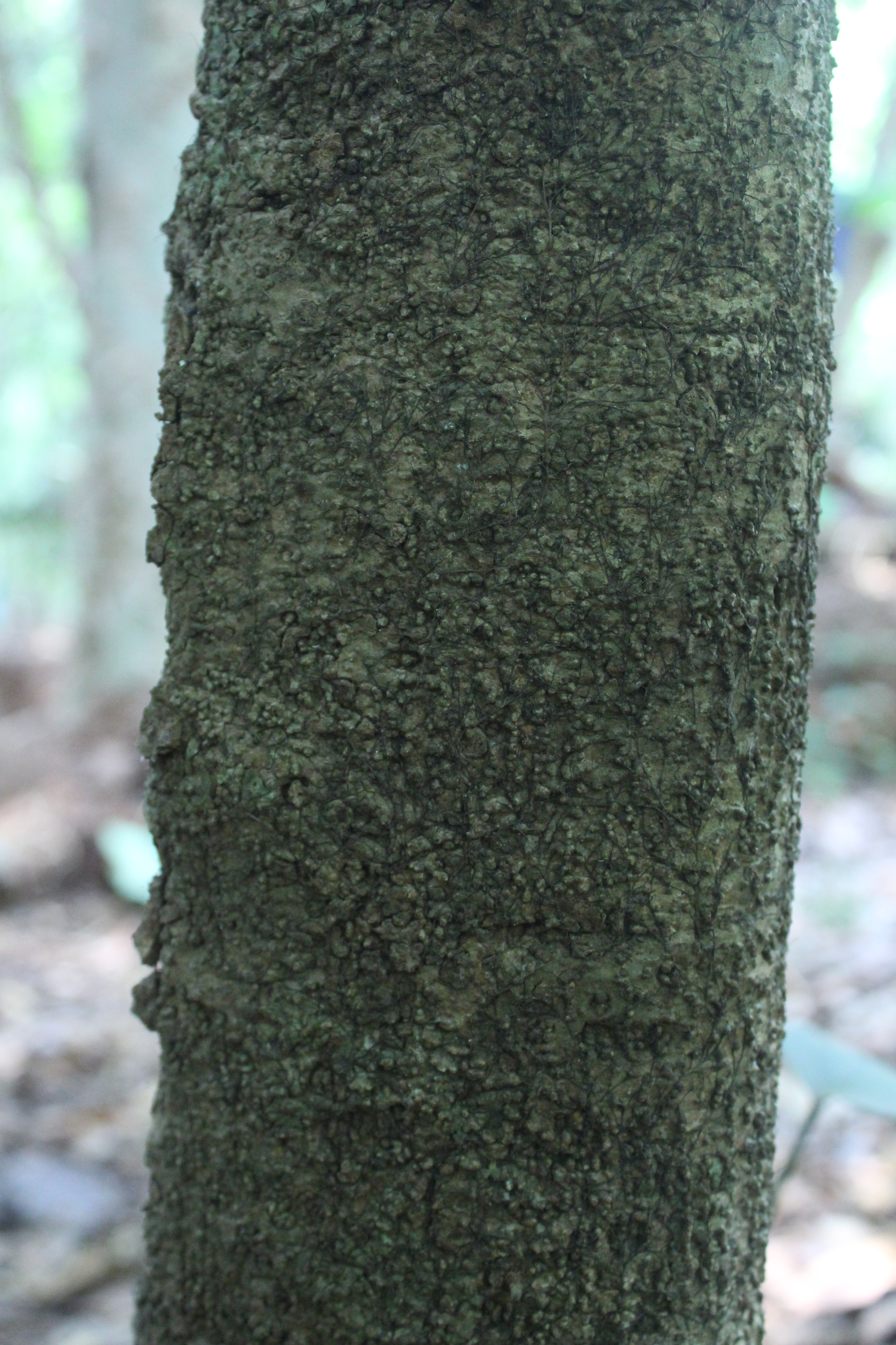 holarrhena-antidysenterica ಕನ್ನಡ: ಕೋಡಸಿಗ